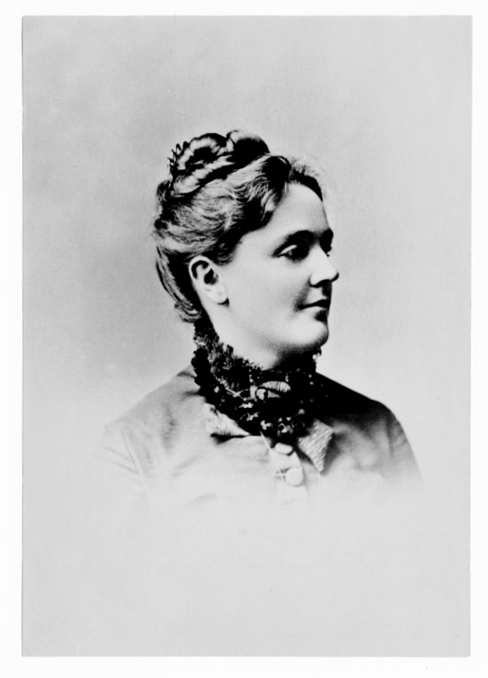 Portrait photograph of Sarah Orne Jewett (1849–1909). The New York Public Library Digital Collection.